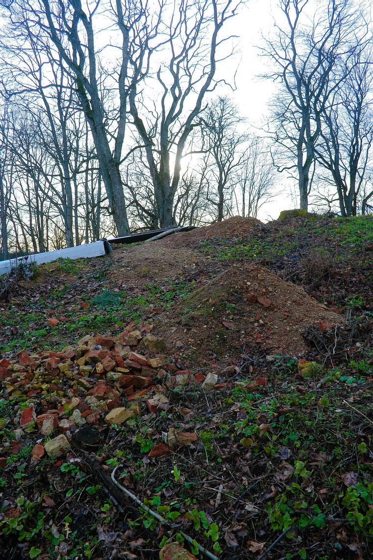 Archeological research carried out in Dubingiai Castle